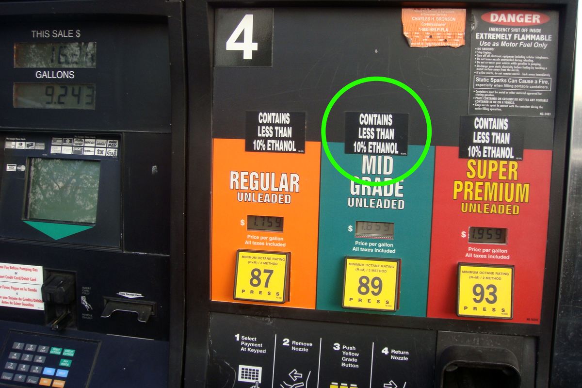 Warming label at a gasoline service pump in Florida regarding the use of ethanol as an oxygenate additive in a proportion less than 10%, Miami, US.